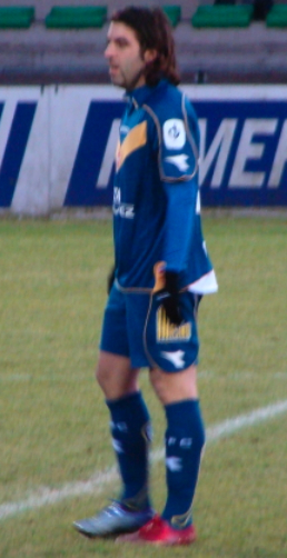 José Saez